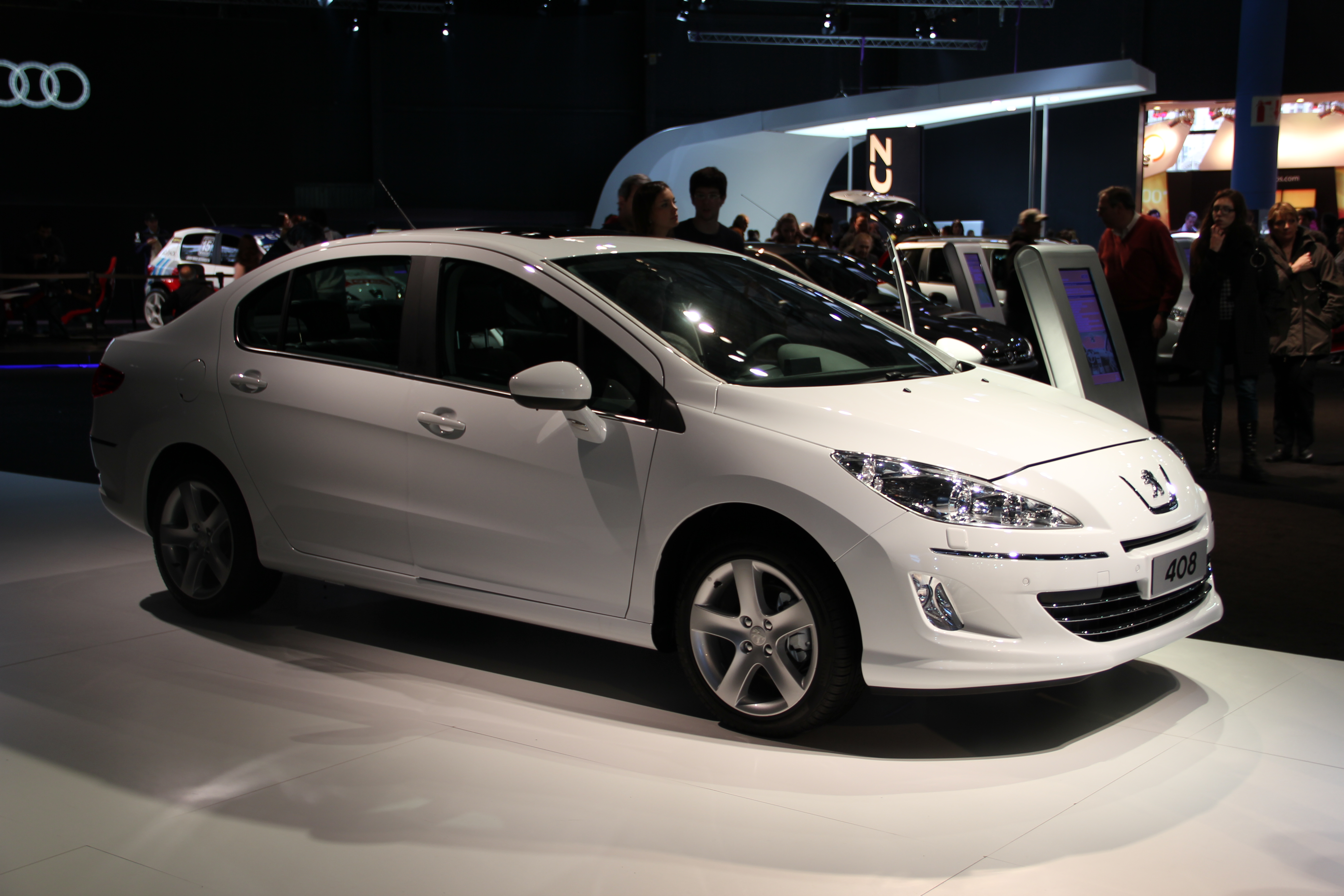 Peugeot 408 Feline at 2011 Buenosn Aires Motor Show